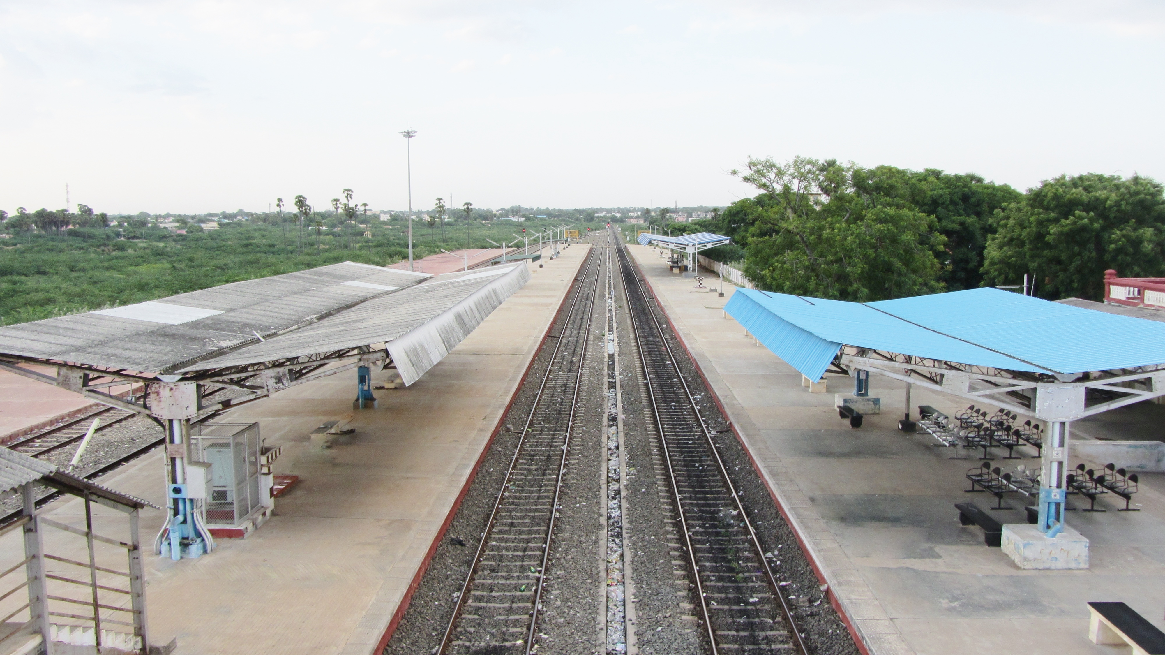 Pudukkottai railway station as seen from foot over bridge